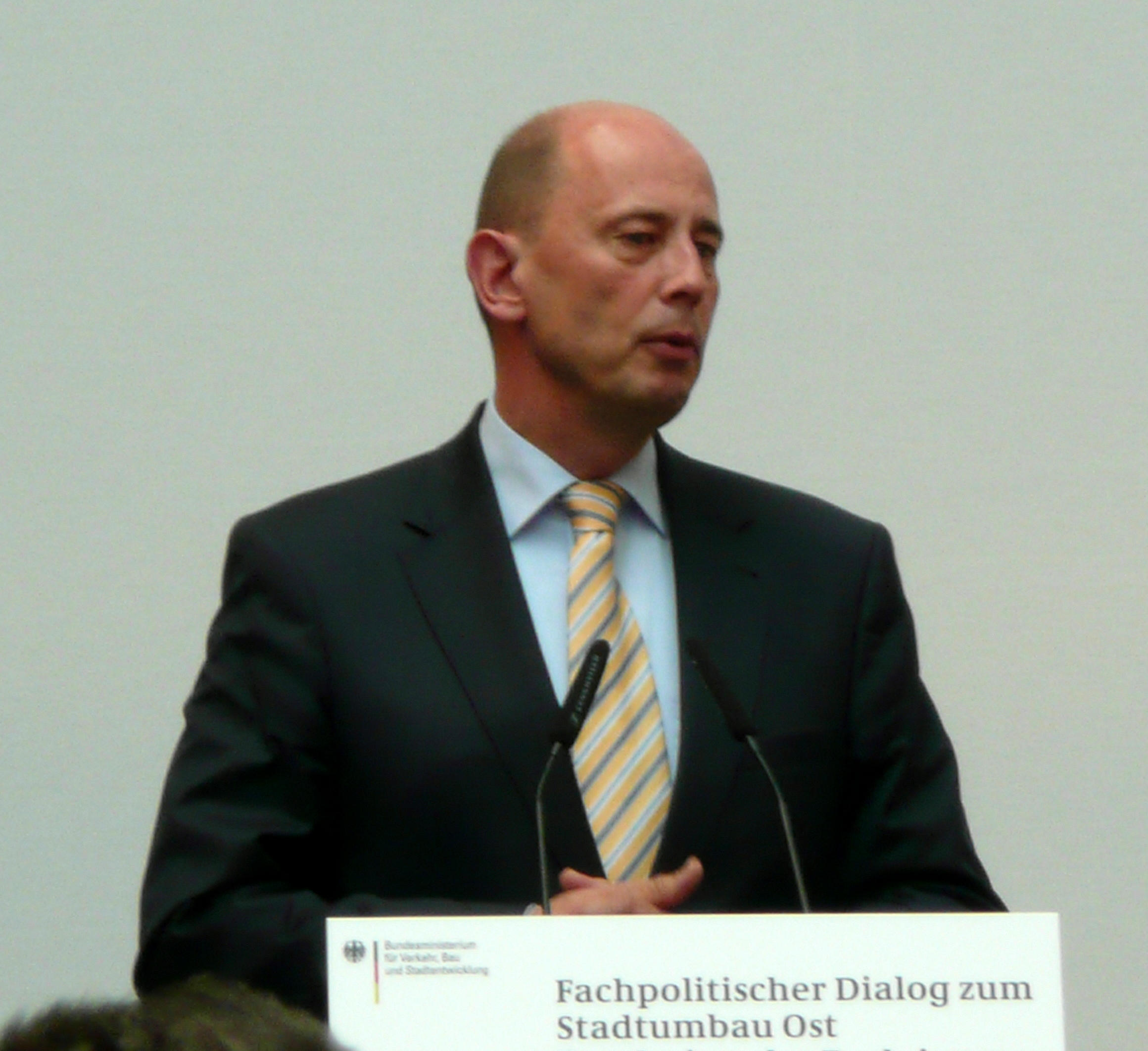 Wolfgang Tiefensee (* 1955), Federal Minister for Transport, Building and Urban Development in Germany since 2005.